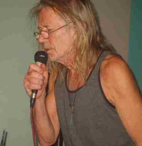 Penny Rimbaud photographed by Graham Burnett (Sfan00 IMG (talk)) at The Vortex Clu, 30/11/2006